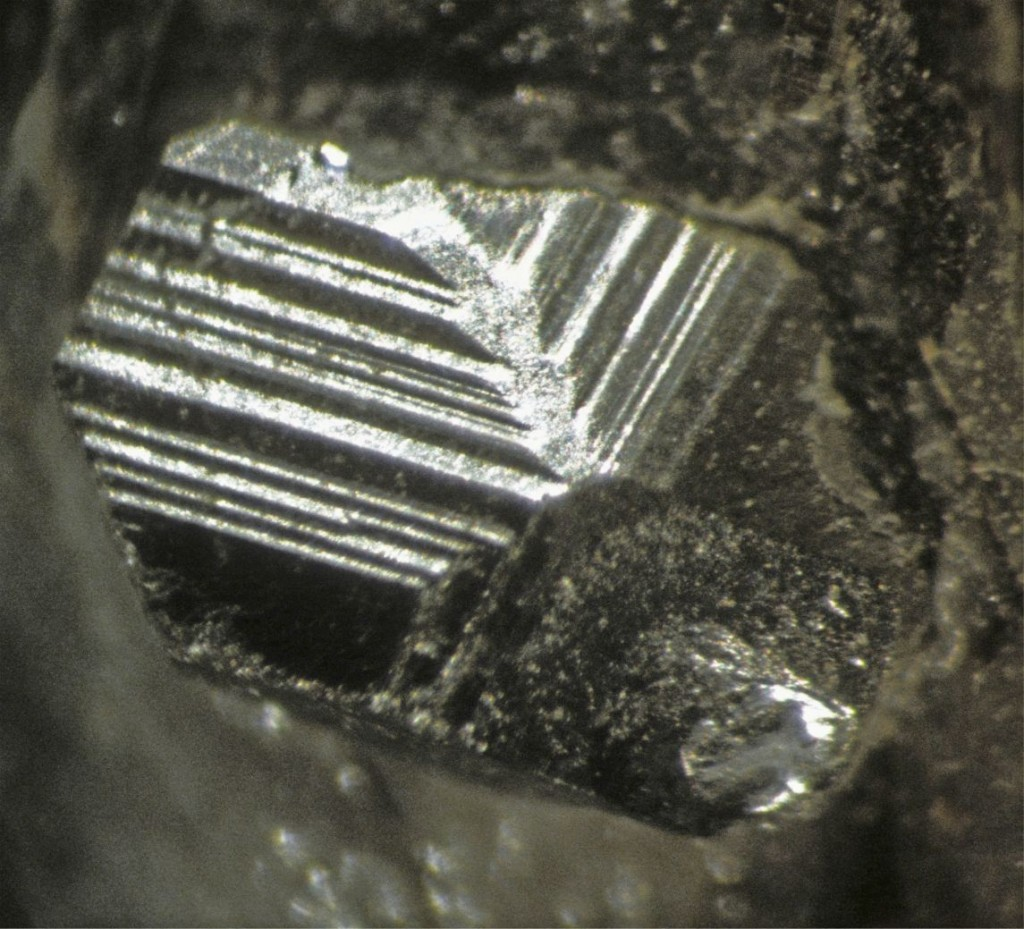 Löllingite (Size ~ 2,5 mm) Locality: Franklin Mine, Franklin, Franklin Mining District, Sussex County, New Jersey, USA Original description: Xl is ~ 2.5 mm in greatest dimension. Found in the 1970s on the Buckwheat dump. MOB coll. This is from an analyzed find. Due to prolonged exposure on the dump, the calcite matrix is badly stained by manganese oxides. But the calcite still fluoresces bright red - a good indication that it comes from the ore body. Updated with an old film photo Nov 2011. It doesn't capture the silvery luster but it does show a very typical habit from this find.